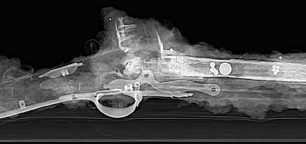 This is a CT scan x-ray image of a Brown Bess musket, believed to be a 1769 short land pattern, that was recovered in 2012 by LAMP (Lighthouse Archaeological Maritime Program) archaeologists from the Storm Wreck, a colonial period shipwreck believed to have wrecked on 31 December 1782. This vessel was likely from the final fleet to evacuate Loyalist refugees and British troops from Charleston to St. Augustine at the end of the American Revolution. The x-ray shows that this musket was loaded with the "buck and ball" commonly used by American Rebels (and in this case, by British redcoats). The Lighthouse Archaeological Maritime Program is the research arm of the St. Augustine Lighthouse & Museum. Photograph should be attributed to Lighthouse Archaeological Maritime Program.